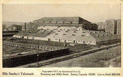 Billy Sunday's Tabernacle in New York City